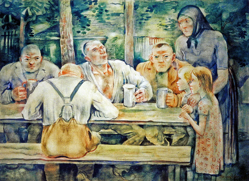 Drinking beer in Kallmünz